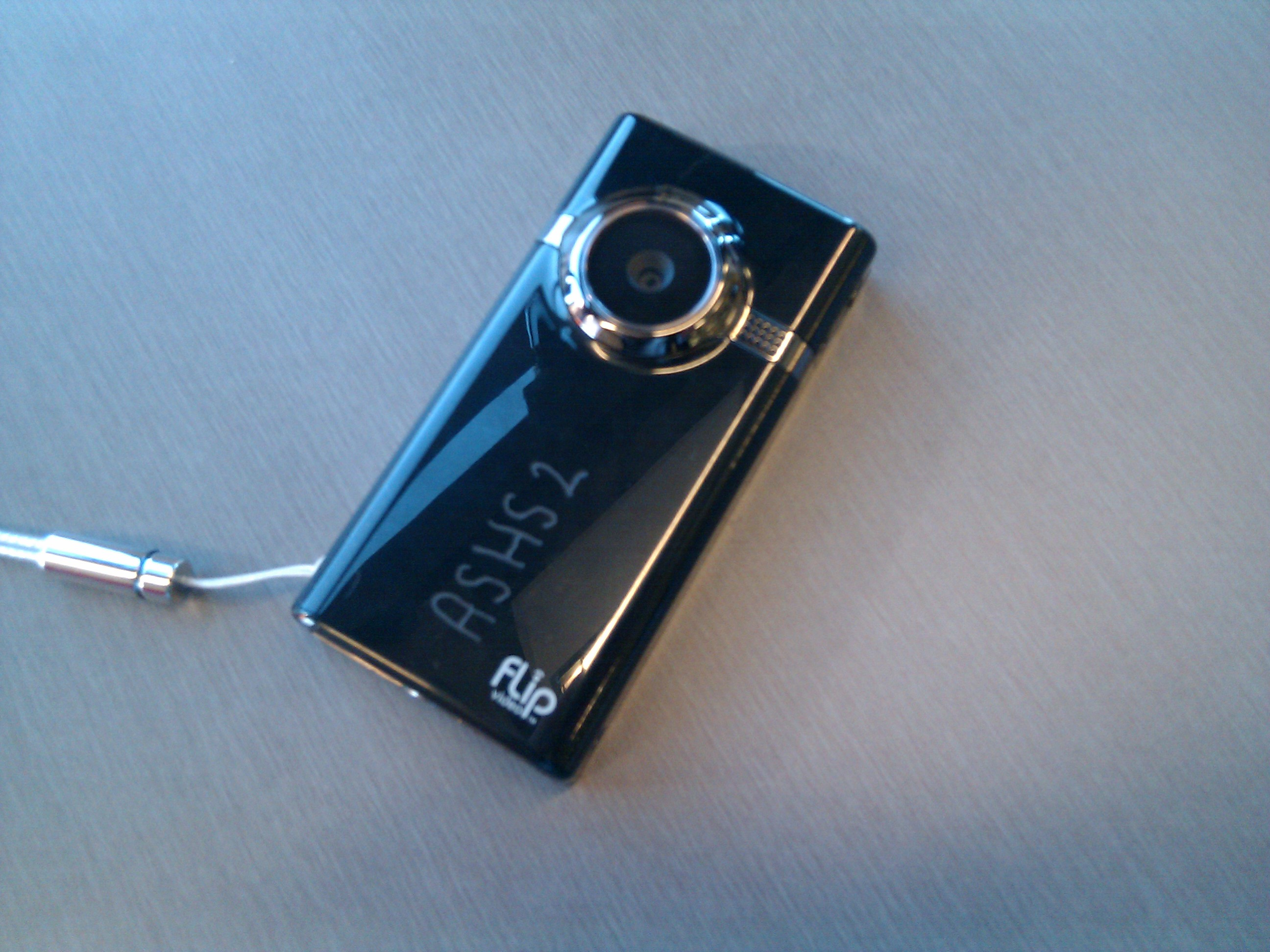 Picture of a Flip Mino HD video camera.